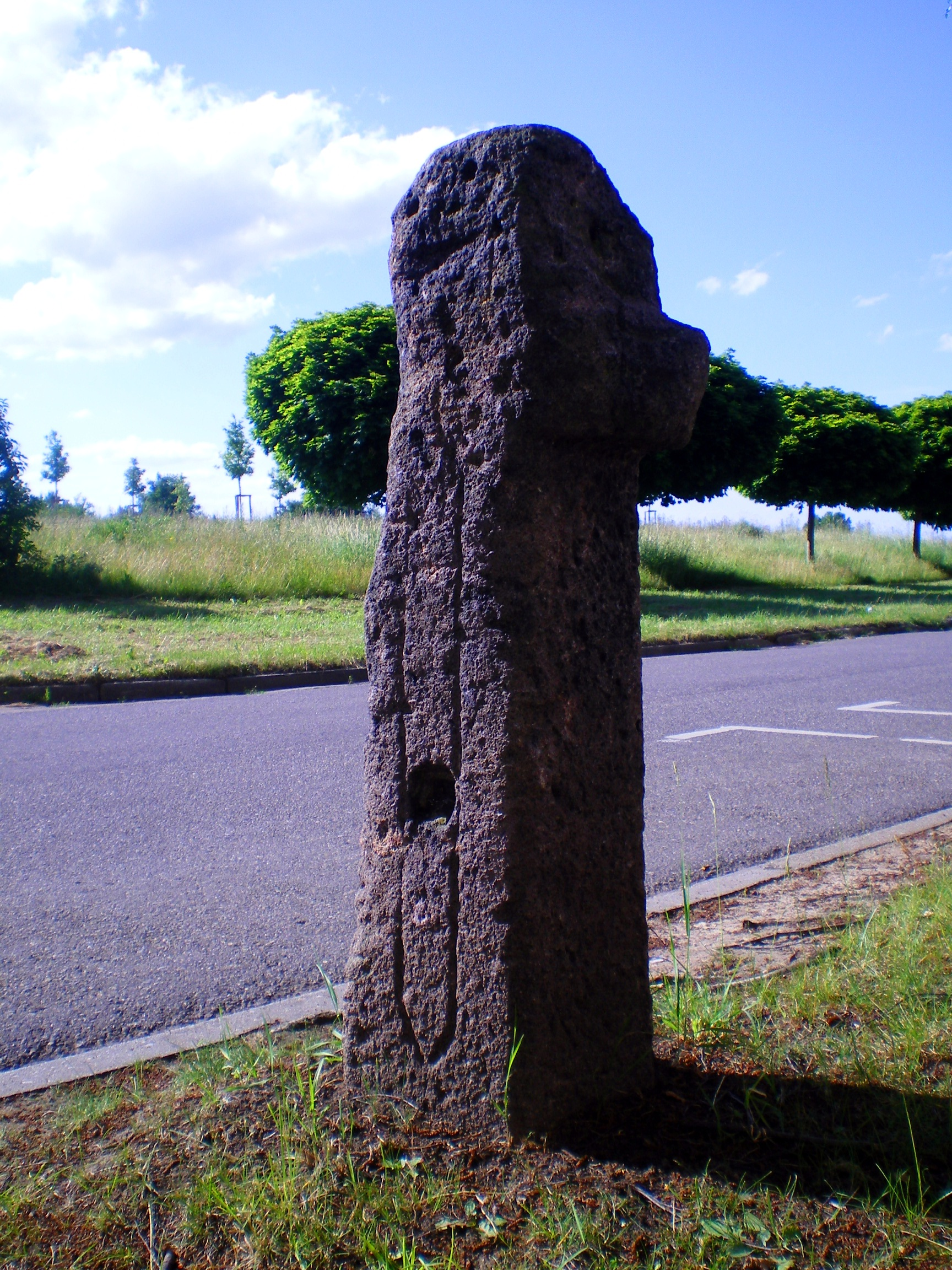 Cross, made out of stone in Altenburg-Zschernitzsch/Thuringia (Germany)